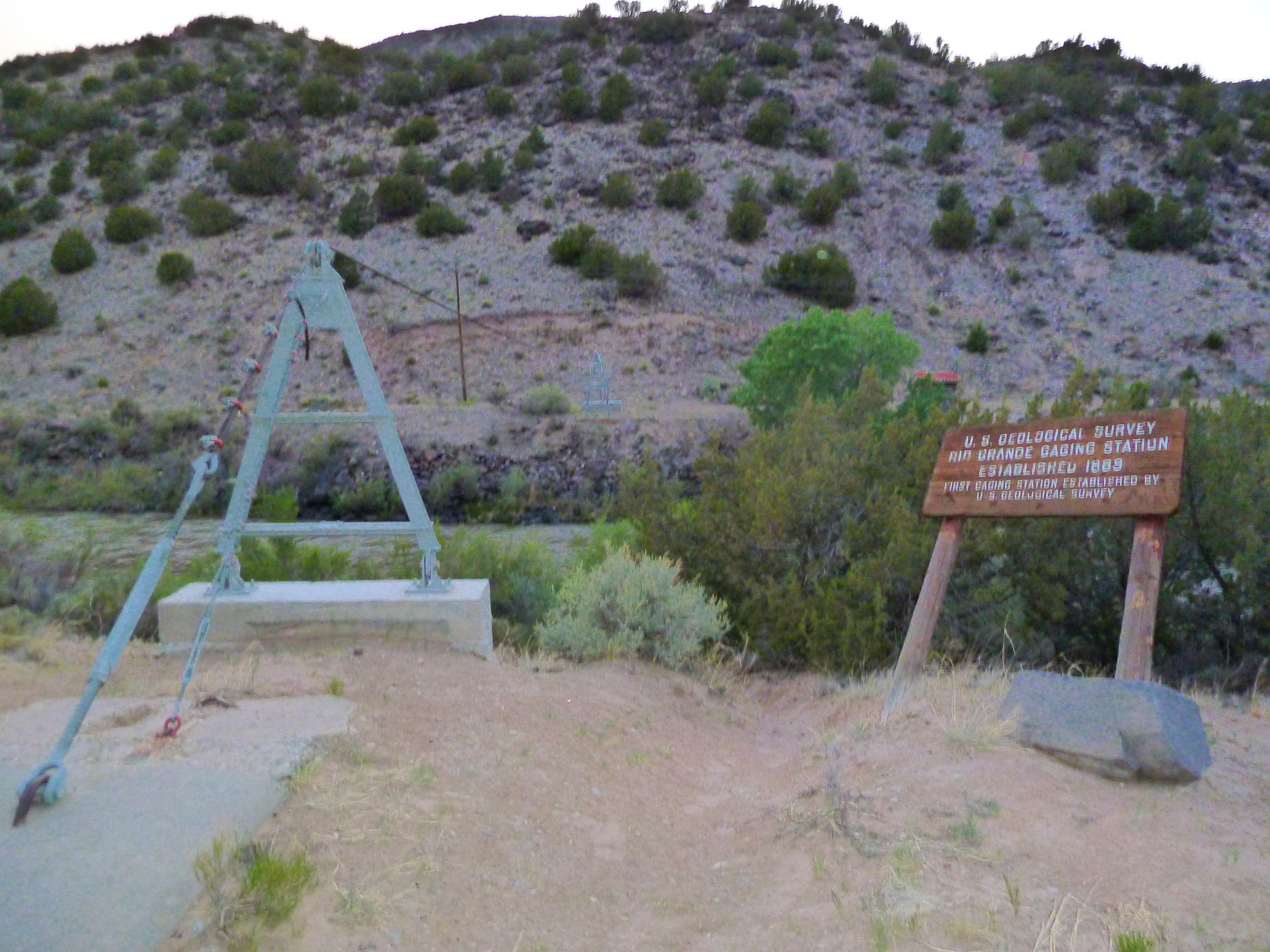 Near Velarde, NM: U.S. Geological Survey Rio Grande Embudo Gaging Station, 2011